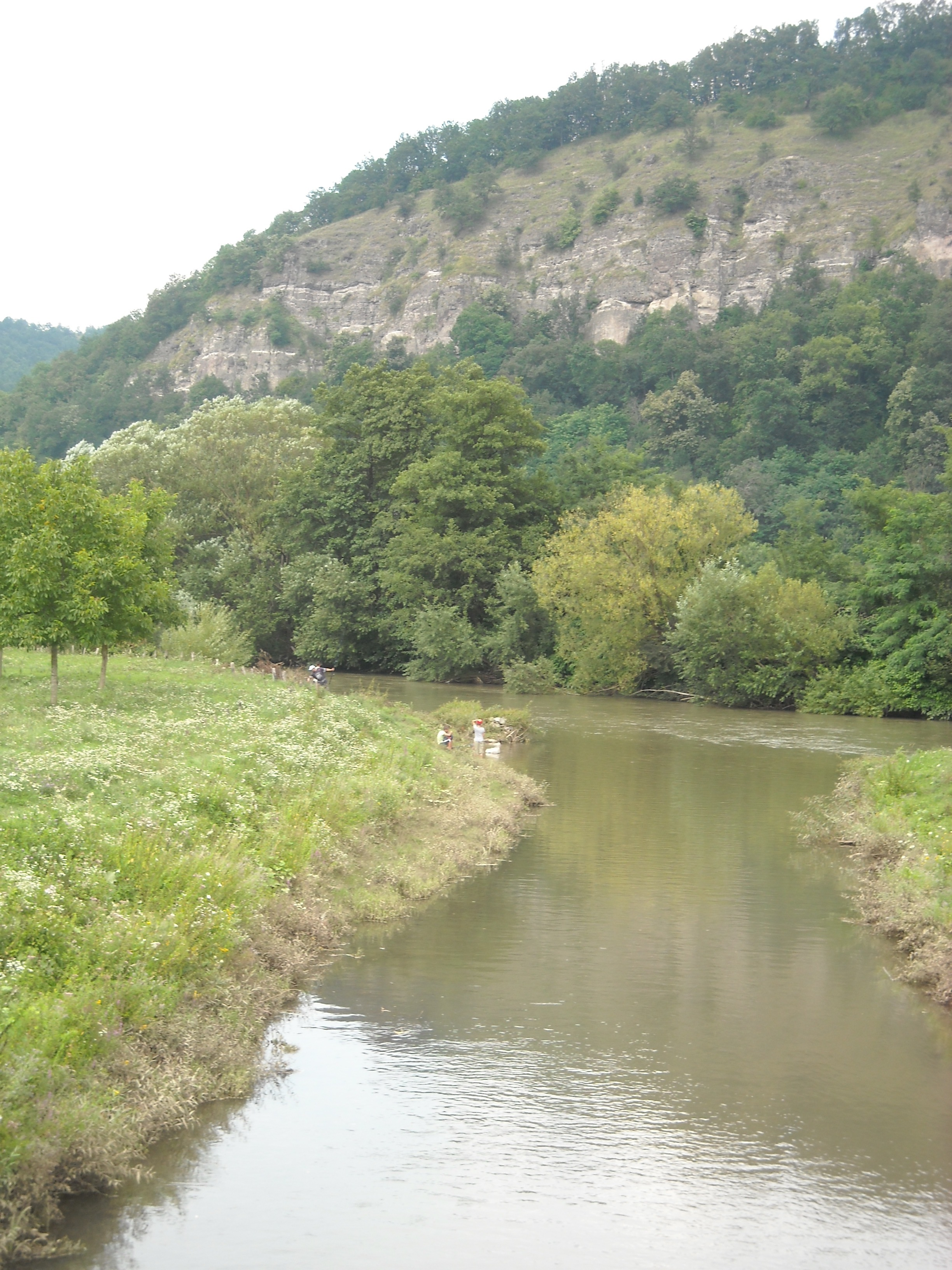 the flowing together of the Honţişor stream and the Crişul Alb river at Gurahonț